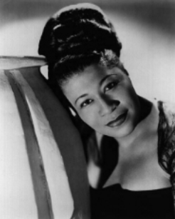 Ella Jane Fitzgerald